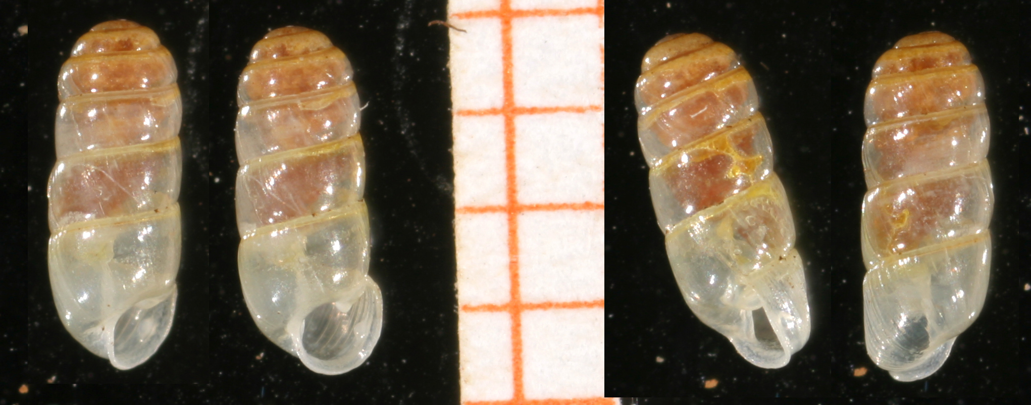 shells of Gulella io. (Scale is in mm.) Locality: Germany: Hamburg, greenhouse Alter Botanischer Garten, 1974.